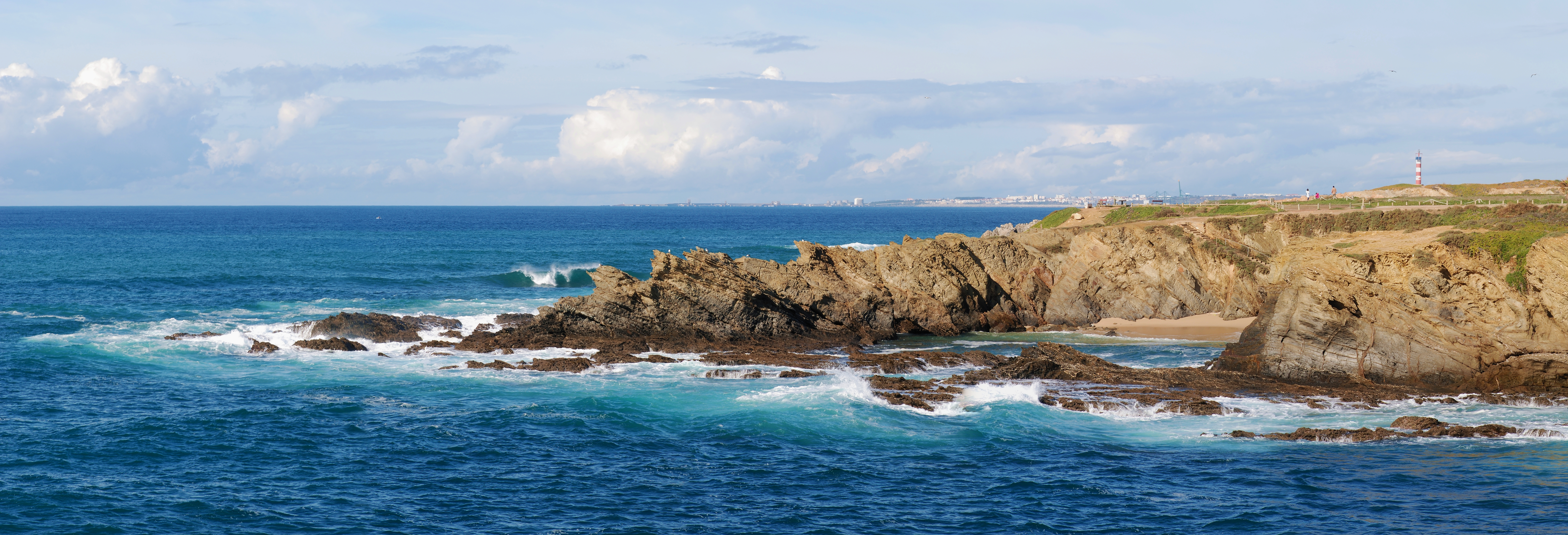 Porto Covo, west coast of Portugal. View from south. Panorama of five photos.